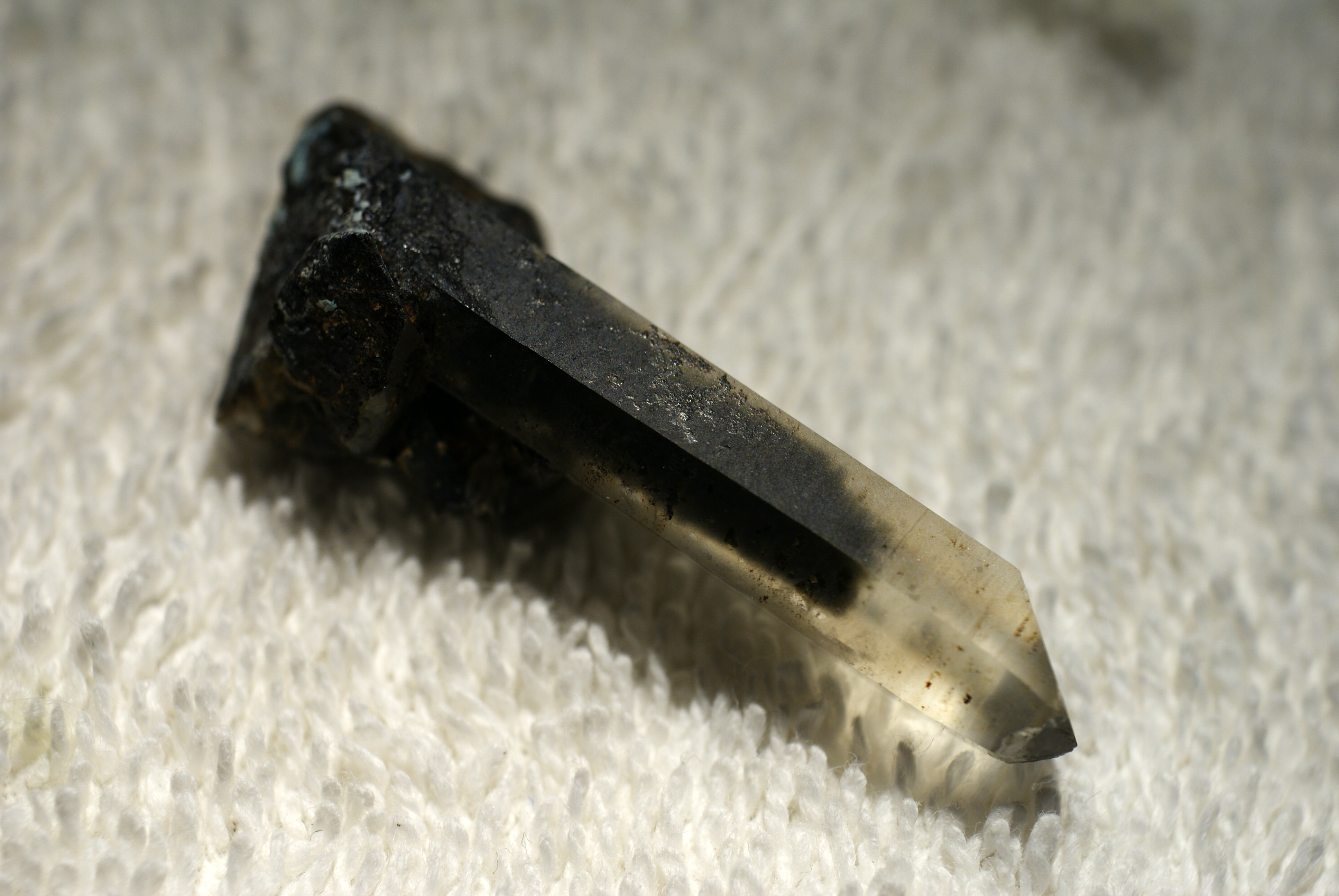 A piece of quartz with a chlorite inclusion.